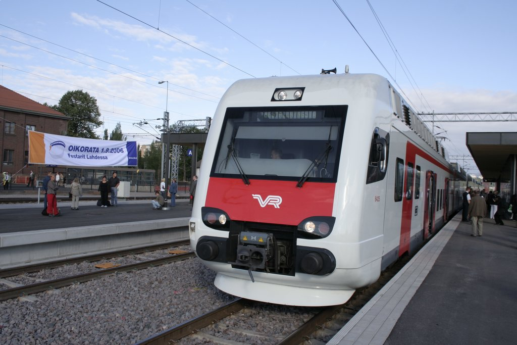 Festival train A Sm4 local traffic train made by Fiat Ferroviaria, CAF and Alsthom 1st September, 2006, used as a festival train for the opening of Kerava–Lahti railway (The Direct Railway of Lahti). Every hour was sent a train from Lahti to Mäntsälä for carry all together 1,500 passengers who had received his or her ticket free of charge to become acquiantant with the new railway connection. The banner on the left side of the train tells about the Direct Railway Festival.